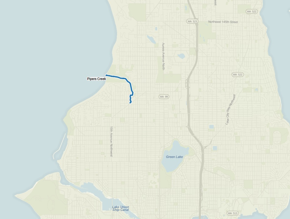 Map of Pipers Creek. Created with Tableau Software